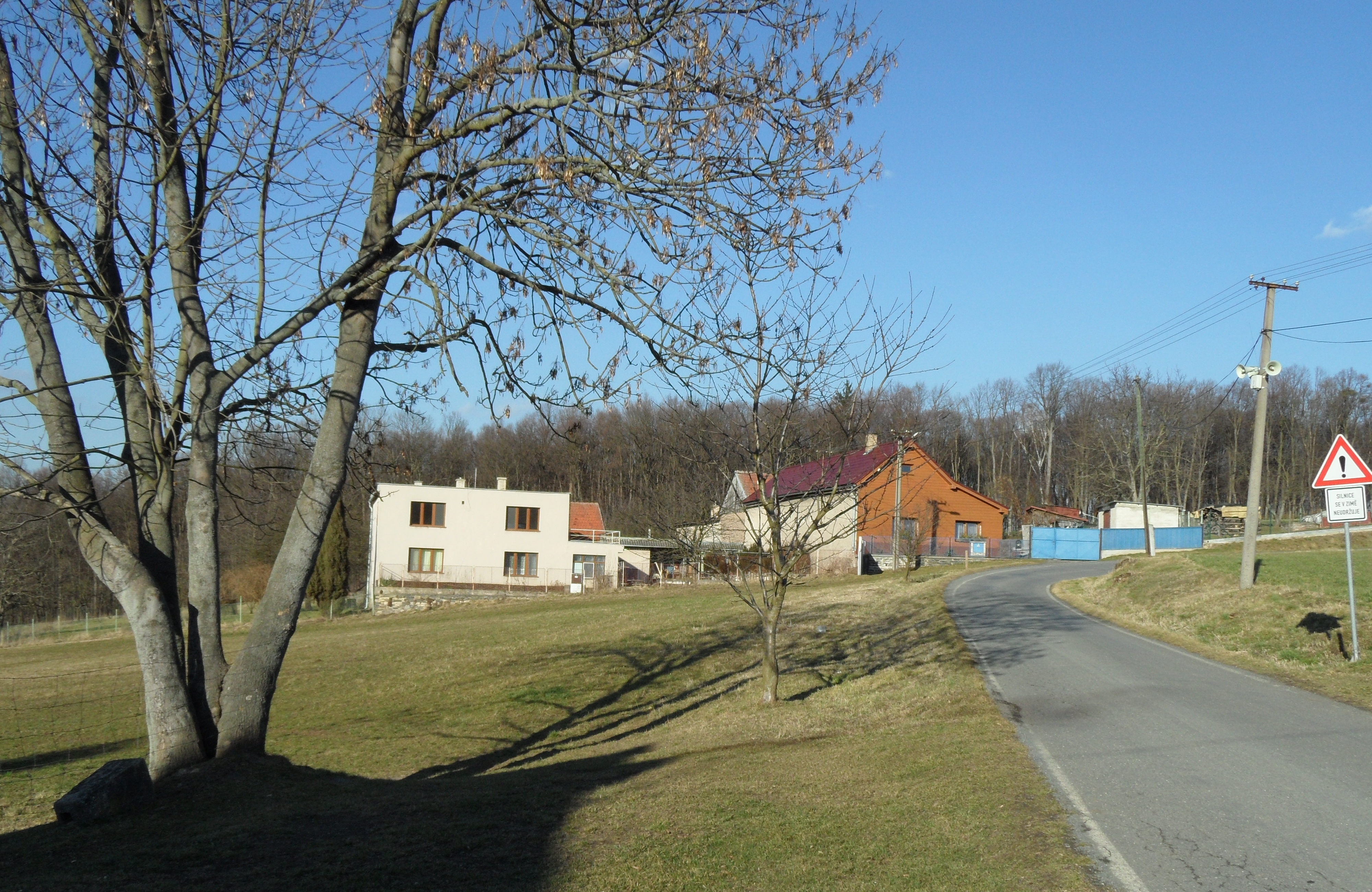 Hostačov (Skryje) K. Housed Around Road, Havlíčkův Brod District, the Czech Republic.